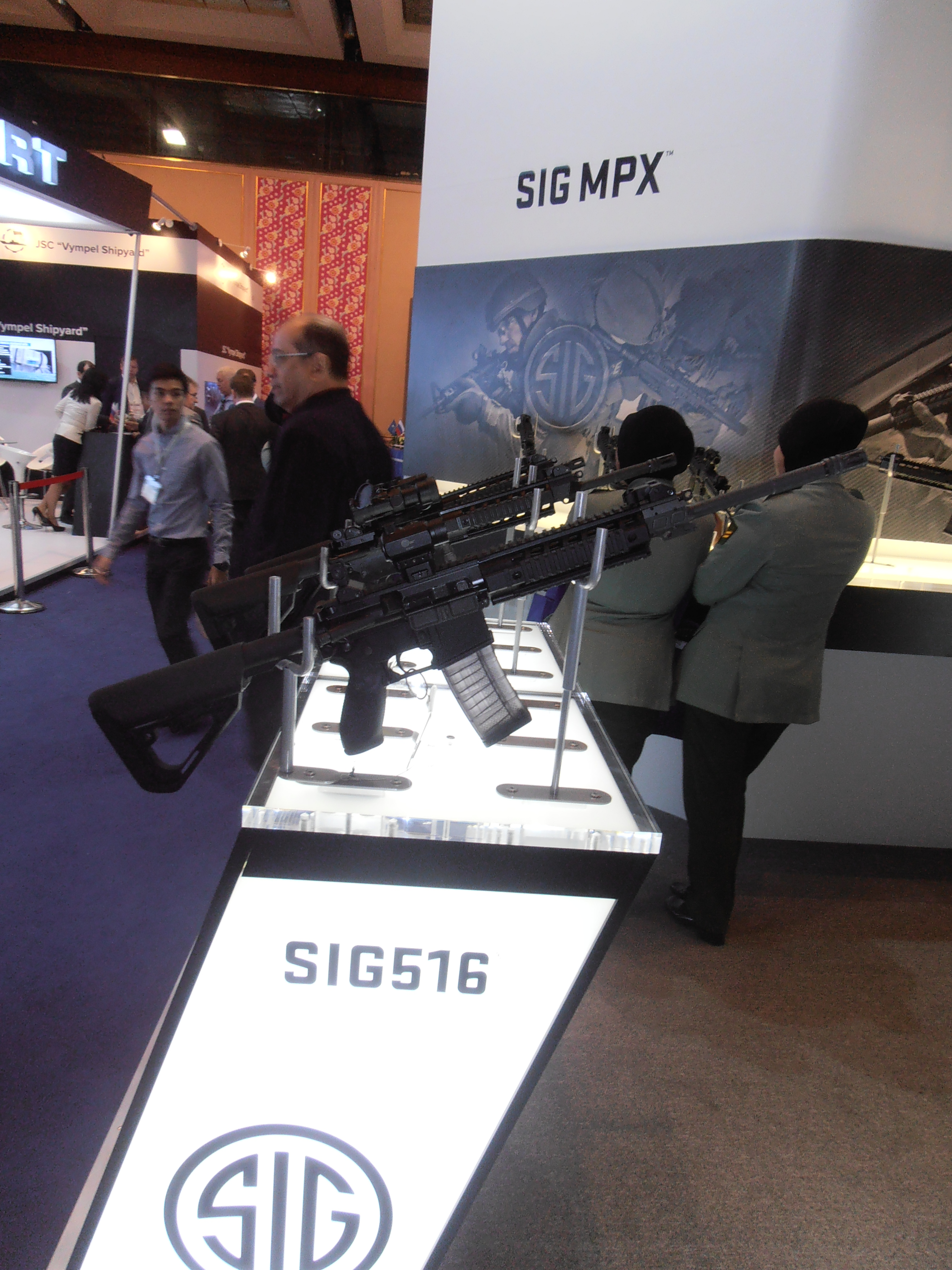 The SIG SG 516 Patrol.